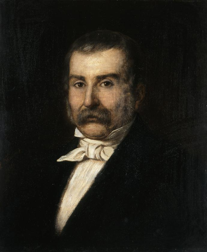 Georgios Gennadios, 1882